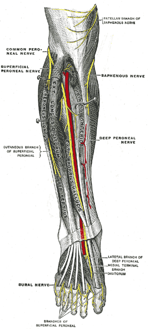 Deep nerves of the front of the leg. (Testut.)